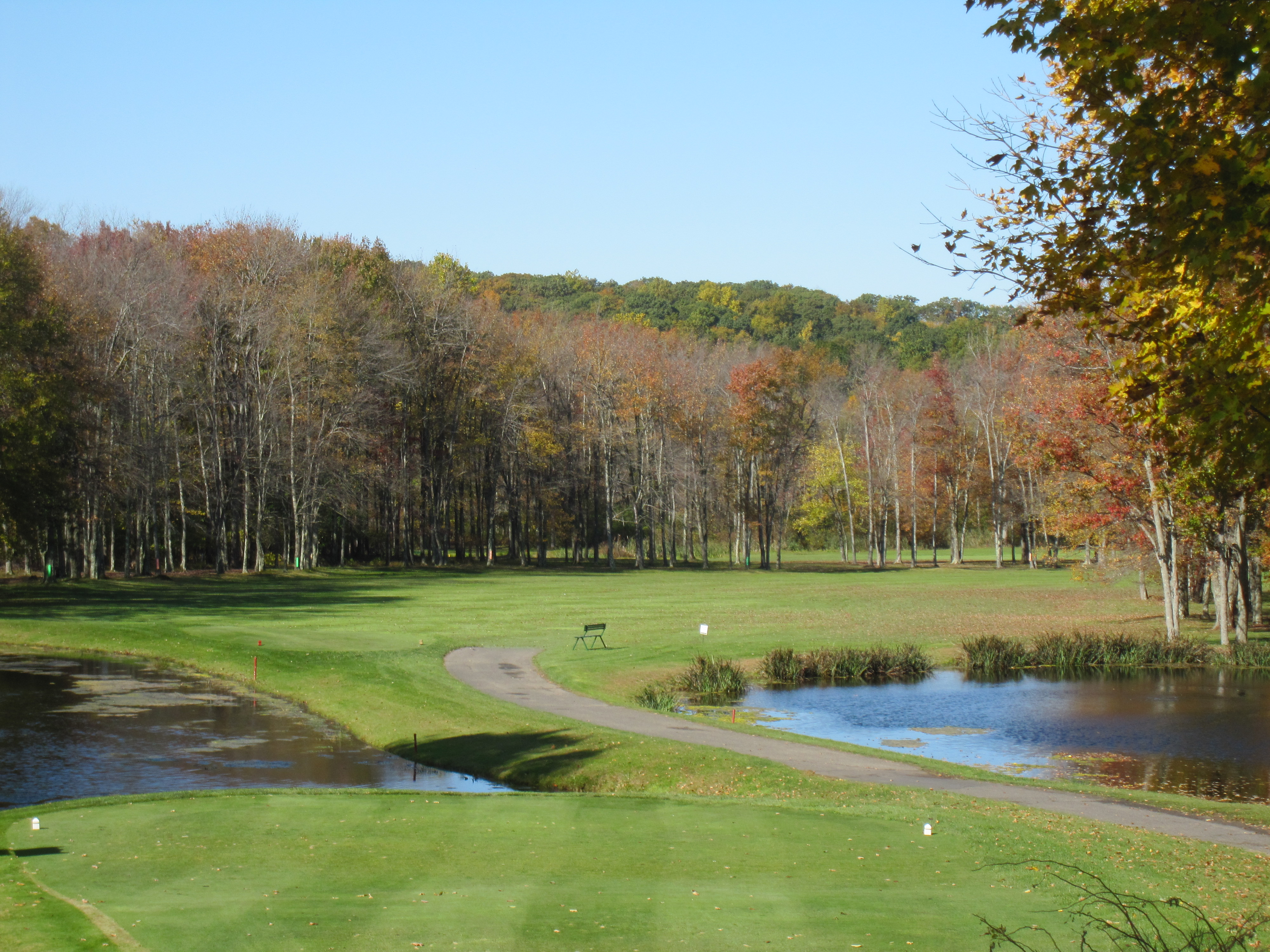 The is a view from the men's blue tee box for the second hole at Ridgefield Golf Course, CT.